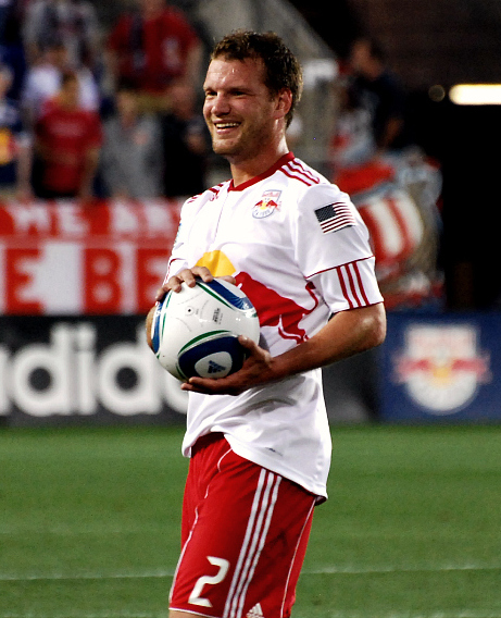 Teemu Tainio playing for the New York Red Bulls against the Colorado Rapids during the 2010 MLS season.